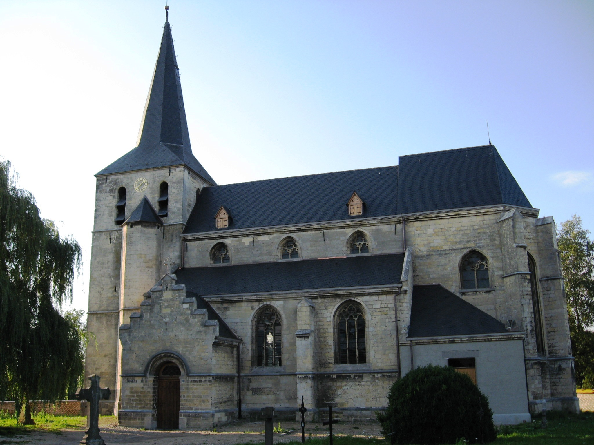 Former Church of Saint Aldegonde in As, Limburg, Belgium